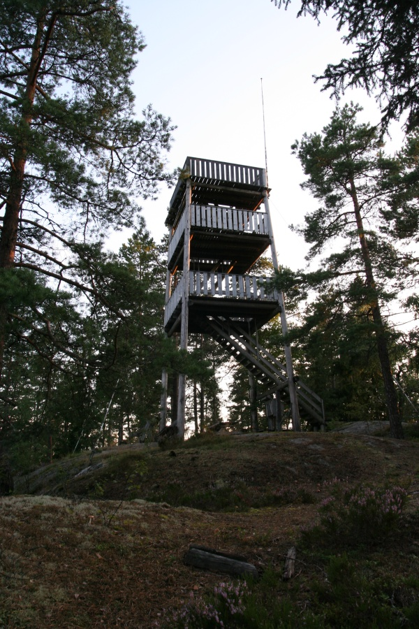 The tower on Oppskott, a peak in Trøgstad, Norway